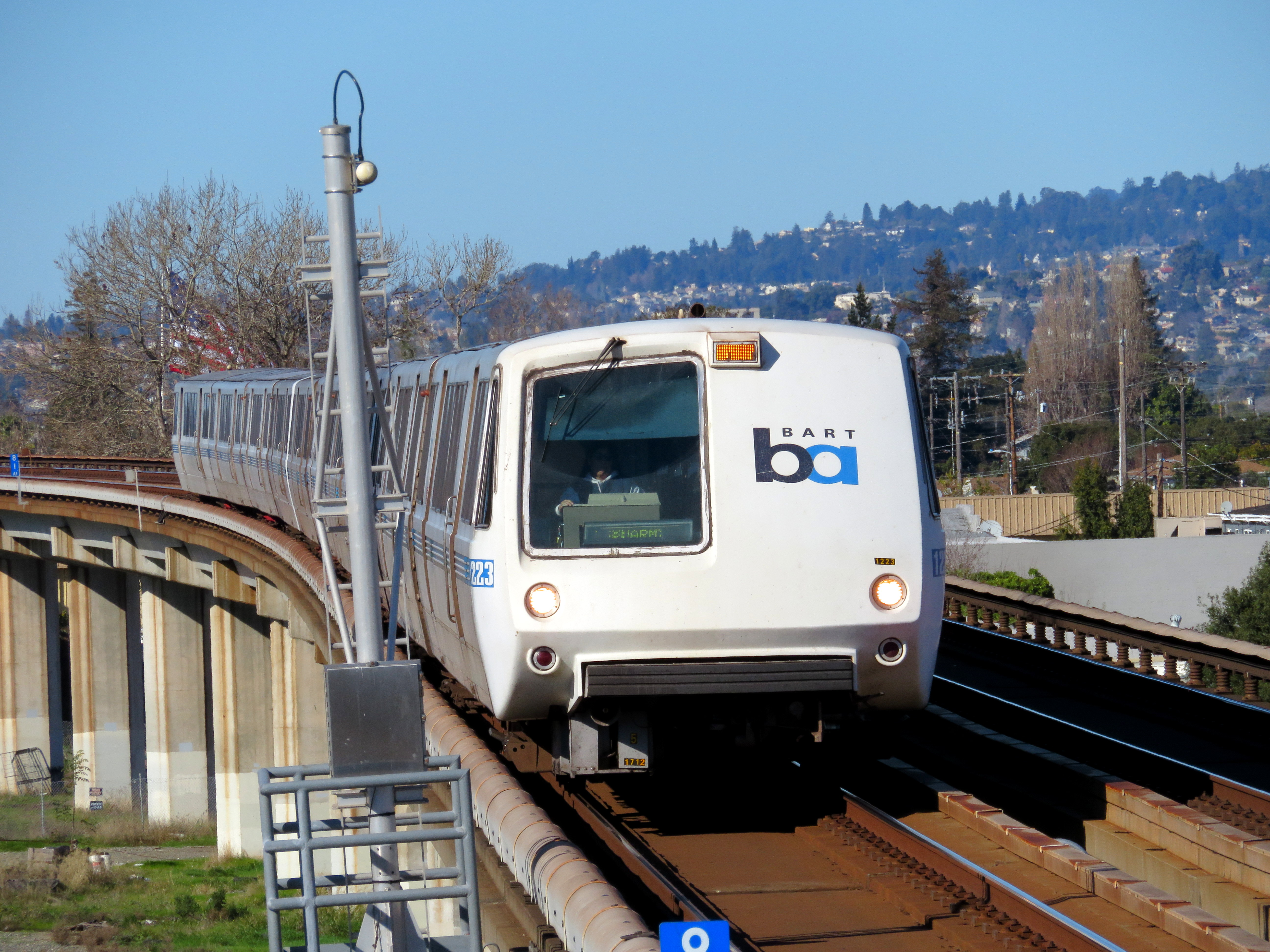 Southbound BART train with an A car in the lead arriving at San Leandro station in January 2018